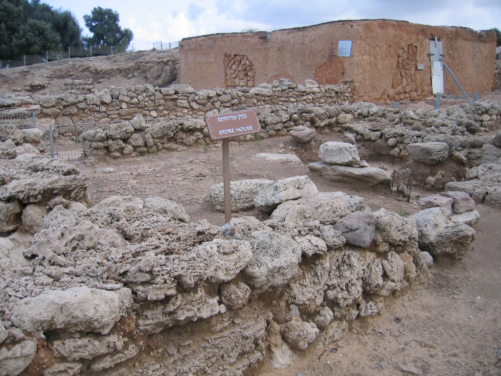 Remains of a storehouse in the Tell Qasile archaeological site, Eretz Israel Museum, Tel Aviv, Israel.